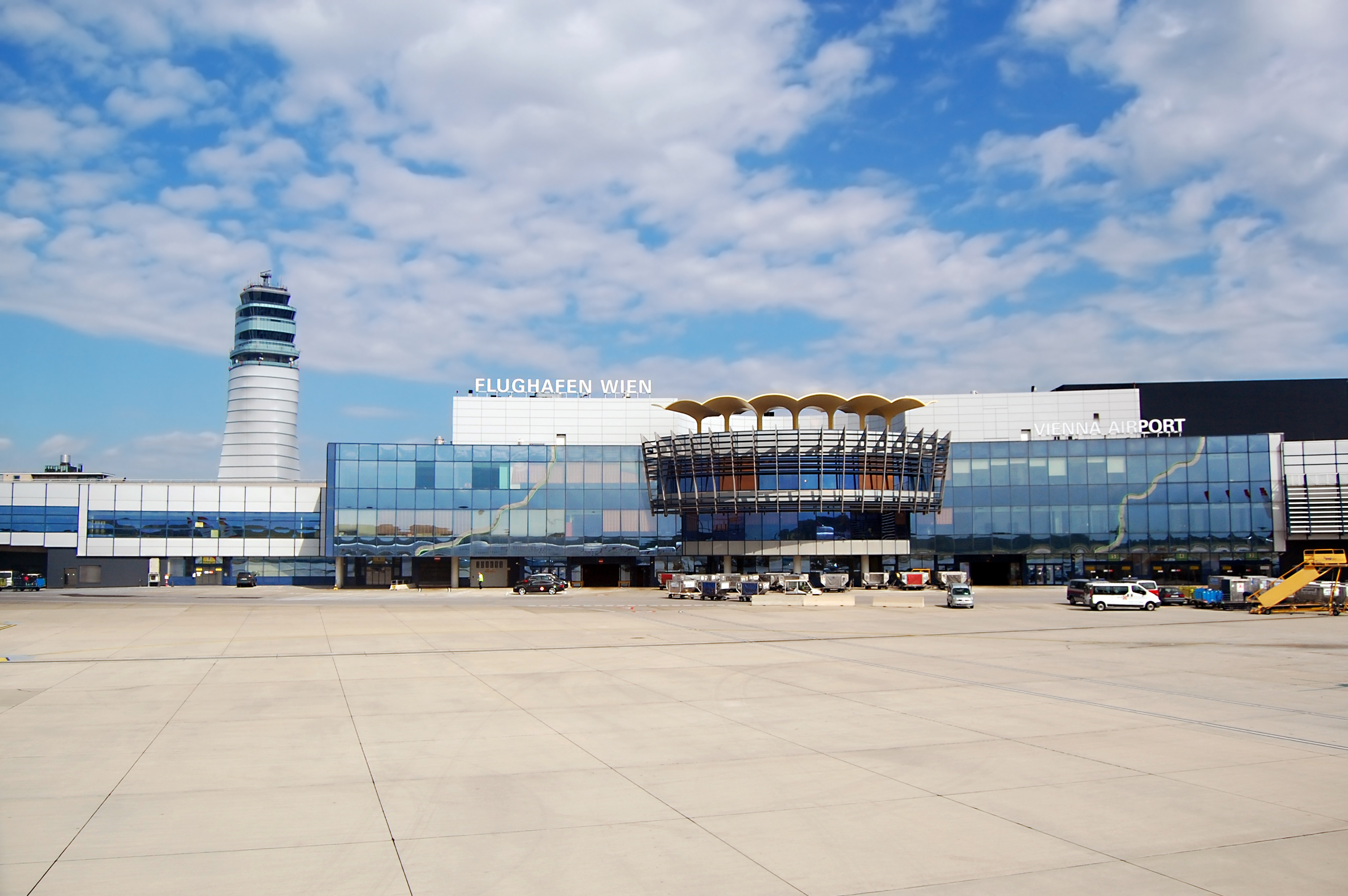 Vienna Airport in Austria